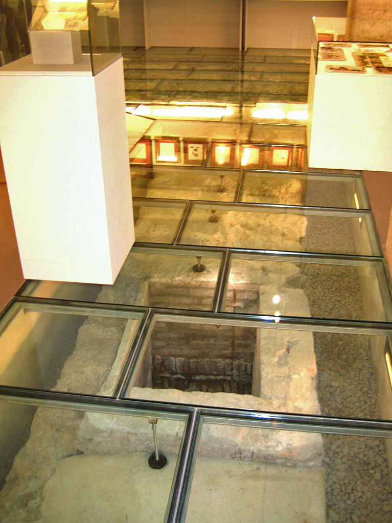 Arab city wall remains, in the basement of the Octubre Centre de Cultura Contemporània, in Valencia, Spain